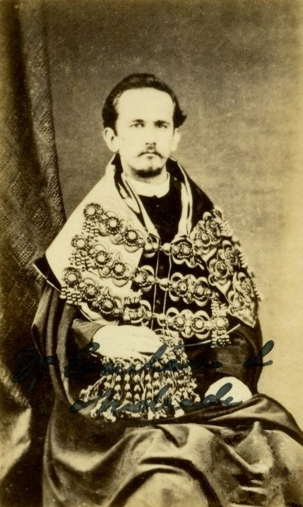 Caetano de Andrade Albuquerque Bettencourt (1844-1900)